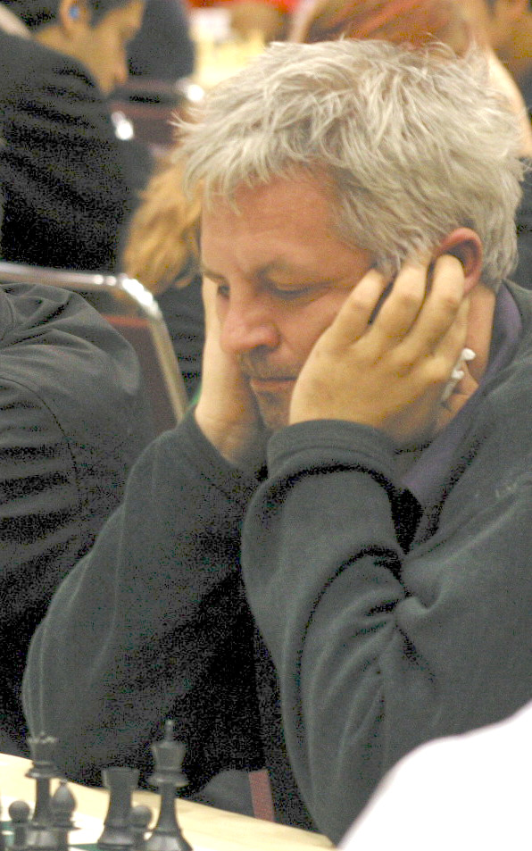 GM Aleksander Wojtkiewicz United States of America, 2005